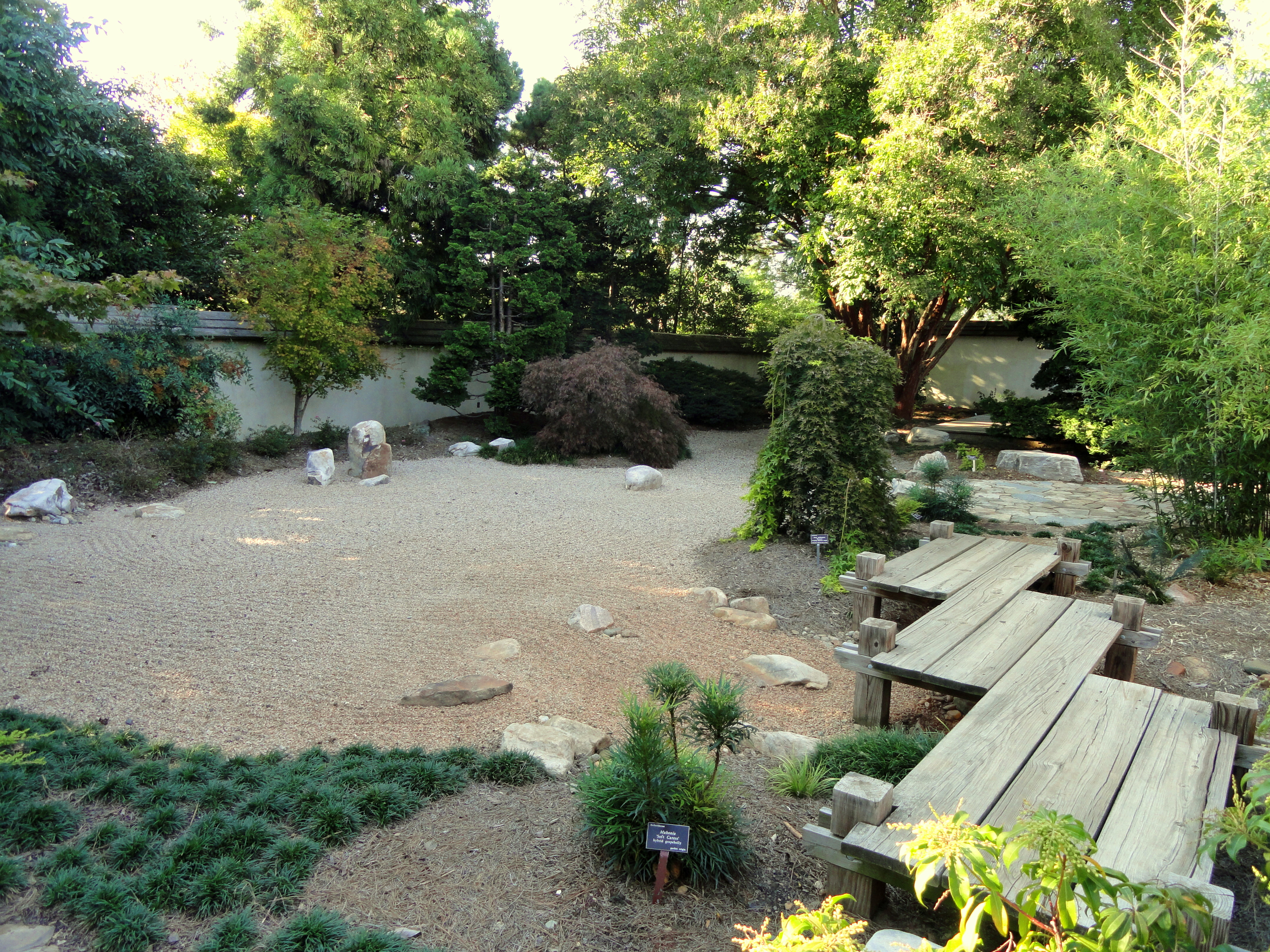 Japanese garden in the J. C. Raulston Arboretum (North Carolina State University), 4415 Beryl Road, Raleigh, North Carolina, USA.